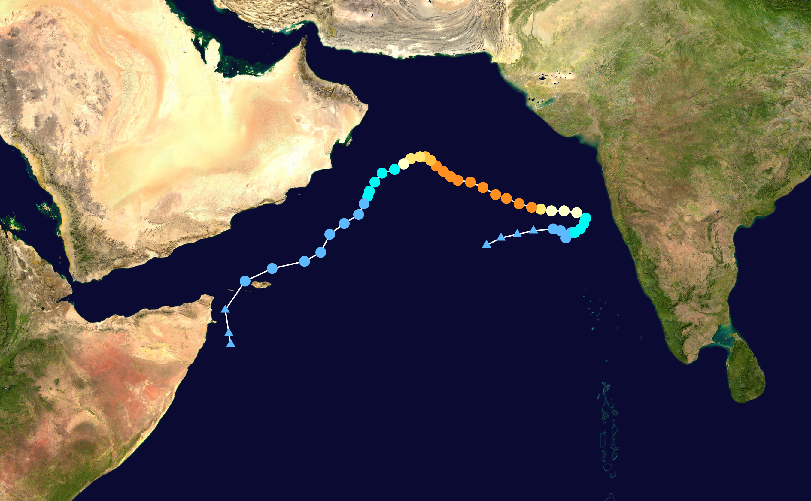 Track map of Super Cyclonic Storm Kyarr of the 2019 North Indian Ocean cyclone season. The points show the location of the storm at 6-hour intervals. The colour represents the storm's maximum sustained wind speeds as classified in the Saffir–Simpson scale (see below), and the shape of the data points represent the nature of the storm, according to the legend below. Saffir–Simpson scale Tropical depression≤38 mph≤62 km/h Category 3111–129 mph178–208 km/h Tropical storm39–73 mph63–118 km/h Category 4130–156 mph209–251 km/h Category 174–95 mph119–153 km/h Category 5≥157 mph≥252 km/h Category 296–110 mph154–177 km/h Unknown Storm type Tropical cyclone Subtropical cyclone Extratropical cyclone / Remnant low / Tropical disturbance / Monsoon depression